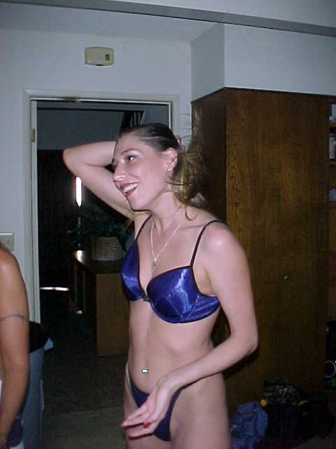 On set of Girl's Affair 58